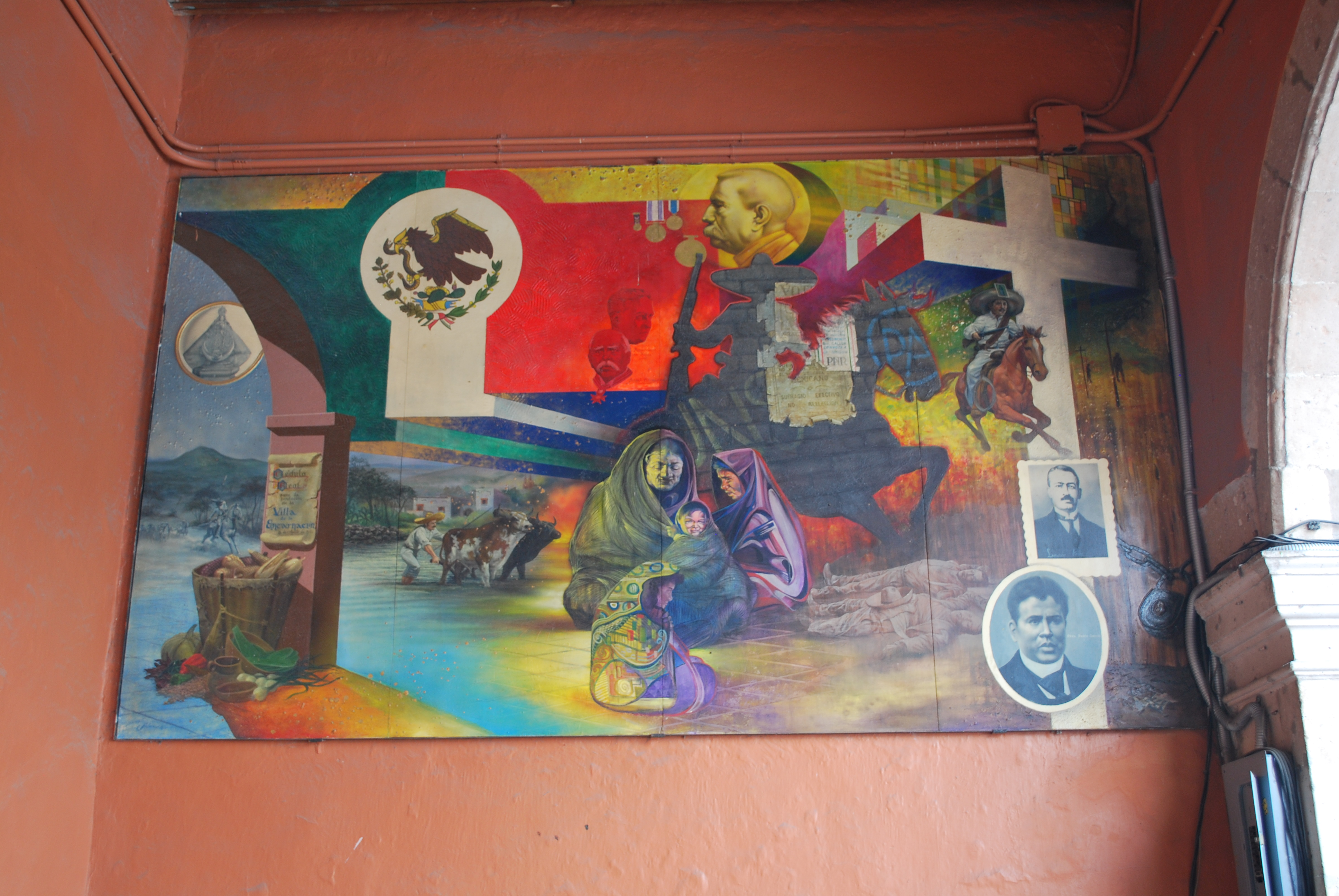 Mural in the portal of the municipal palace of